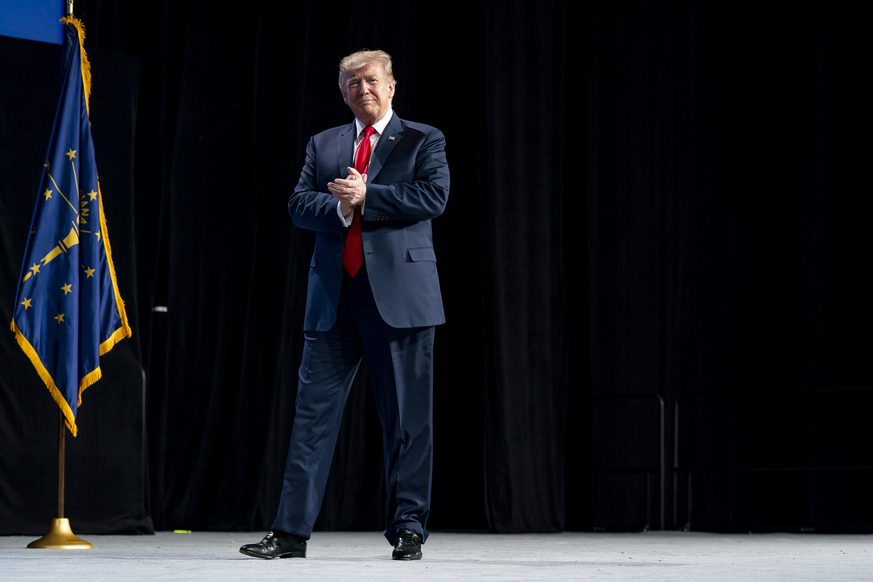 President Donald J. Trump is introduced on stage Friday, April 26, 2019, at the National Rifle Association annual convention in Indianapolis, Ind. (Official White House Photo by Tia Dufour)